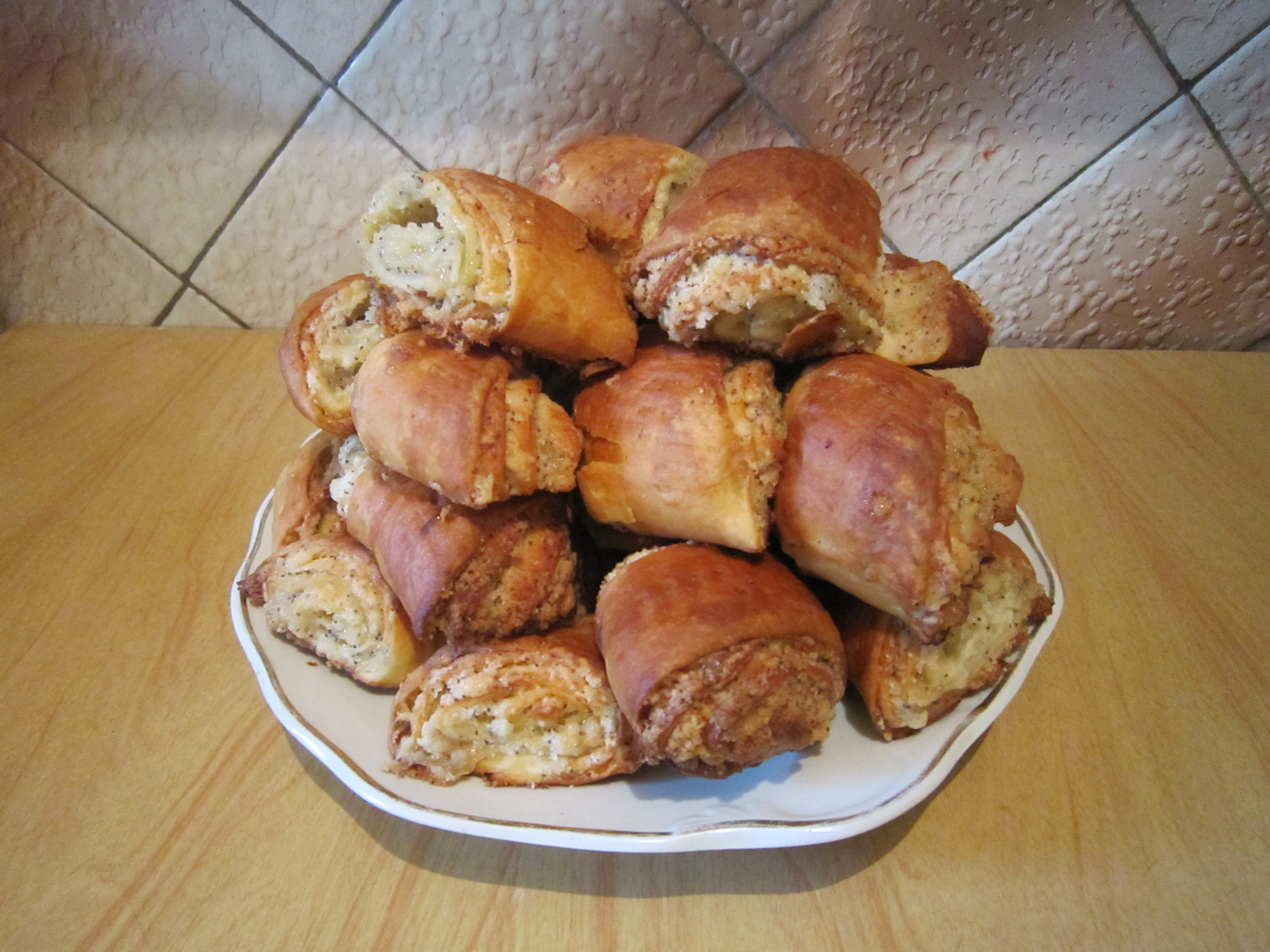 Armenian nazuk.